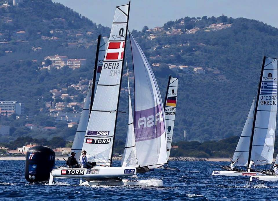 Danish Nacra 17 sailing